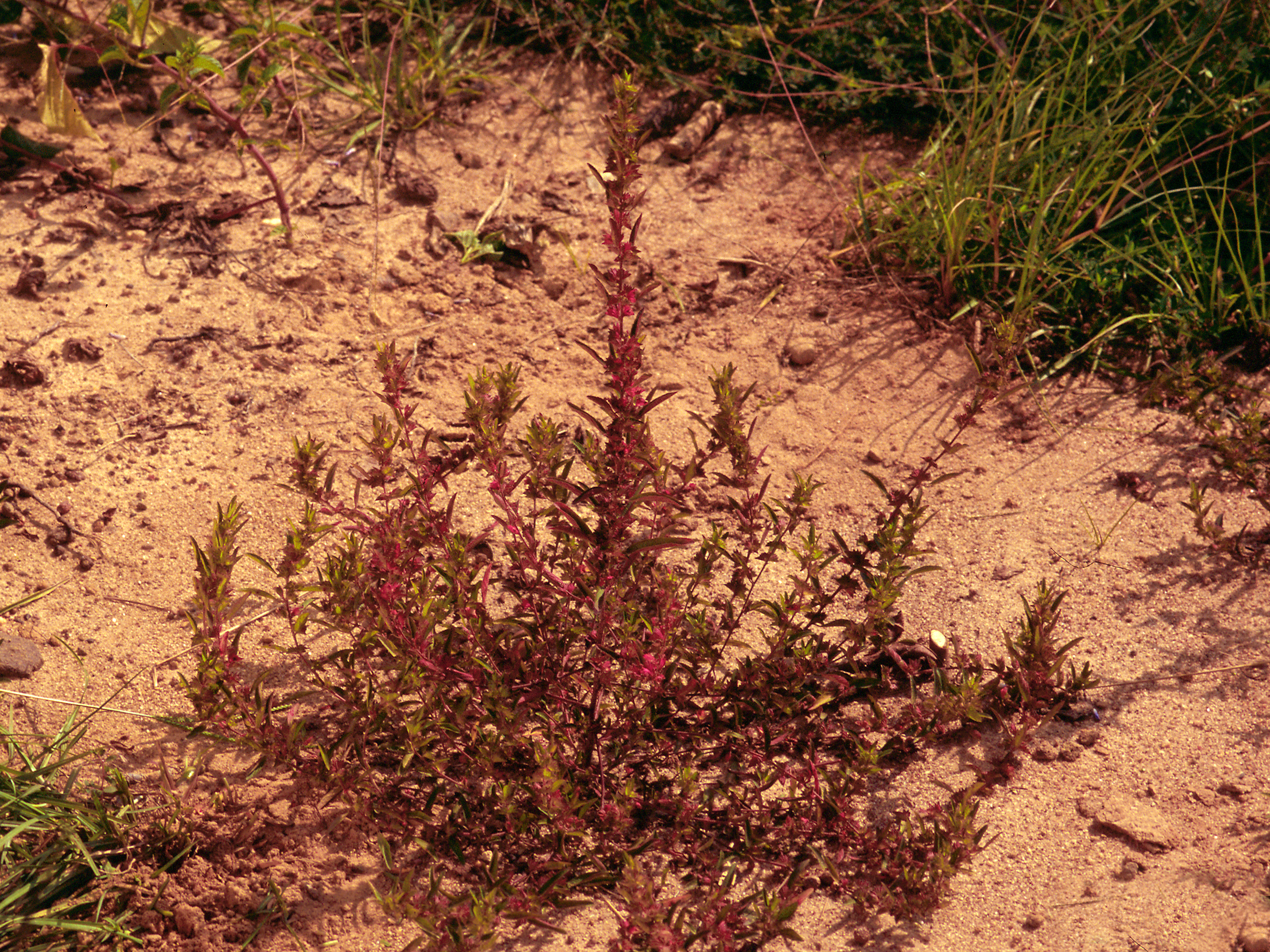 Acalypha gracilens Gray - slender copperleaf - September. Photo from Forest Plants of the Southeast and Their Wildlife Uses by J.H. Miller and K.V. Miller, published by The University of Georgia Press in cooperation with the Southern Weed Science Society.